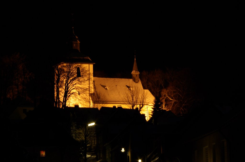 The old church high on a hill of Warstein in the Sauerland, North Rhine-Westphalia, Germany, on a cold, clear winter's night.